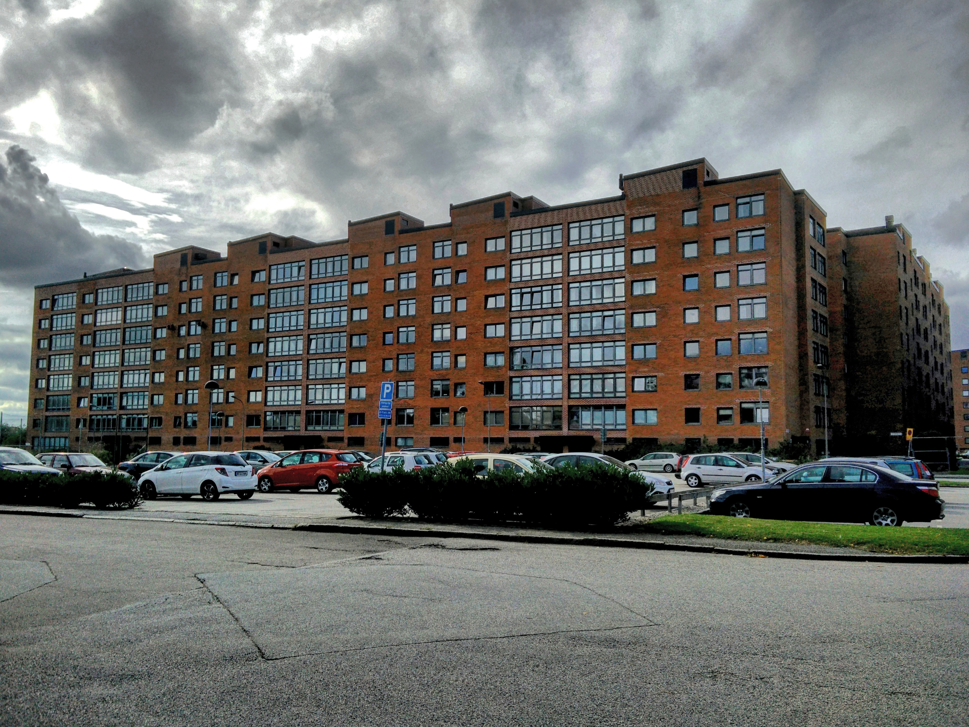 Sunnanväg 14, Klostergården, Lund, Sweden.